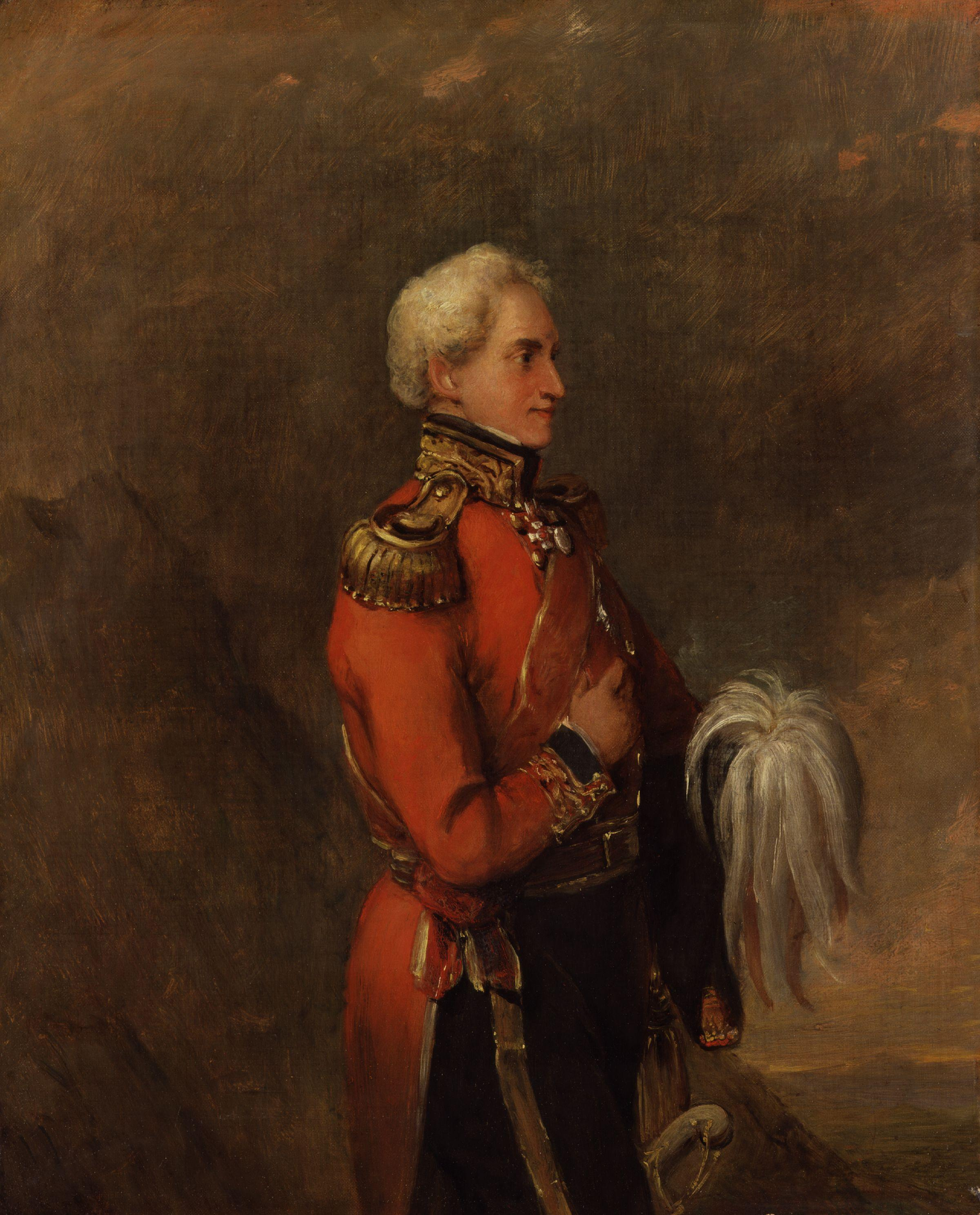 All images in this batch have been confirmed as author died before 1939 according to the official death date listed by the NPG.